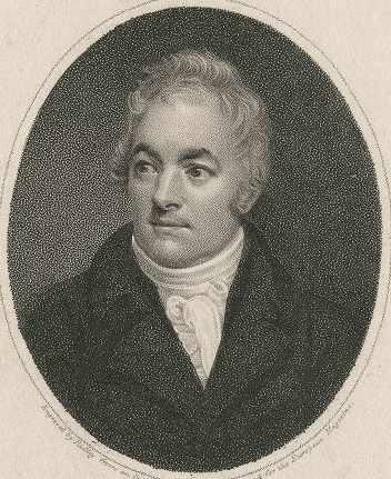 Collection: Folger Shakespeare Library Digital Image Collection Collection Folger Shakespeare Library Digital Image Collection Collection Source Creator: Ridley, William, 1764-1838, printmaker. Author Ridley, William, 1764-1838, printmaker. Source Creator Source Title: John Bannister esqr. [graphic] / engraved by Ridley from an original painting by Drummond. CD_Title John Bannister esqr. [graphic] / engraved by Ridley from an original painting by Drummond. Source Title Source Created or Published: Cornhill, Eng. : Published by Vernor & Hood, March 1, 1811. Imprint Cornhill, Eng. : Published by Vernor & Hood, March 1, 1811. Source Created or Published Source Call Number: ART File B219.5 no.1 (size XS) Call_Number ART File B219.5 no.1 (size XS) Source Call Number Digital Image File Name: 20929 ROOTFILE 20929 Digital Image File Name Digital Image Type: FSL collection Image_Type FSL collection Digital Image Type Hamnet Bib ID: 251917 Bibrecord001 251917 Hamnet Bib ID Hamnet Holdings ID: 327549